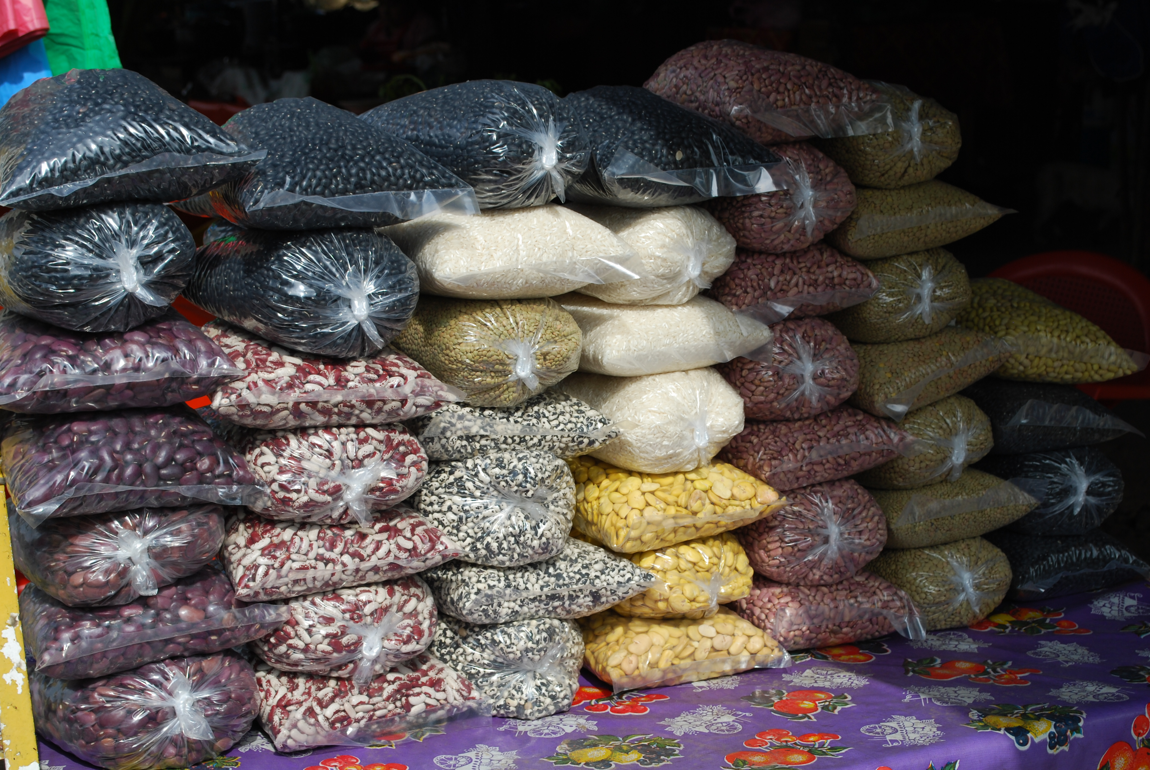 Bags of various beans for sale in Tlayacapan, Morelos, Mexico